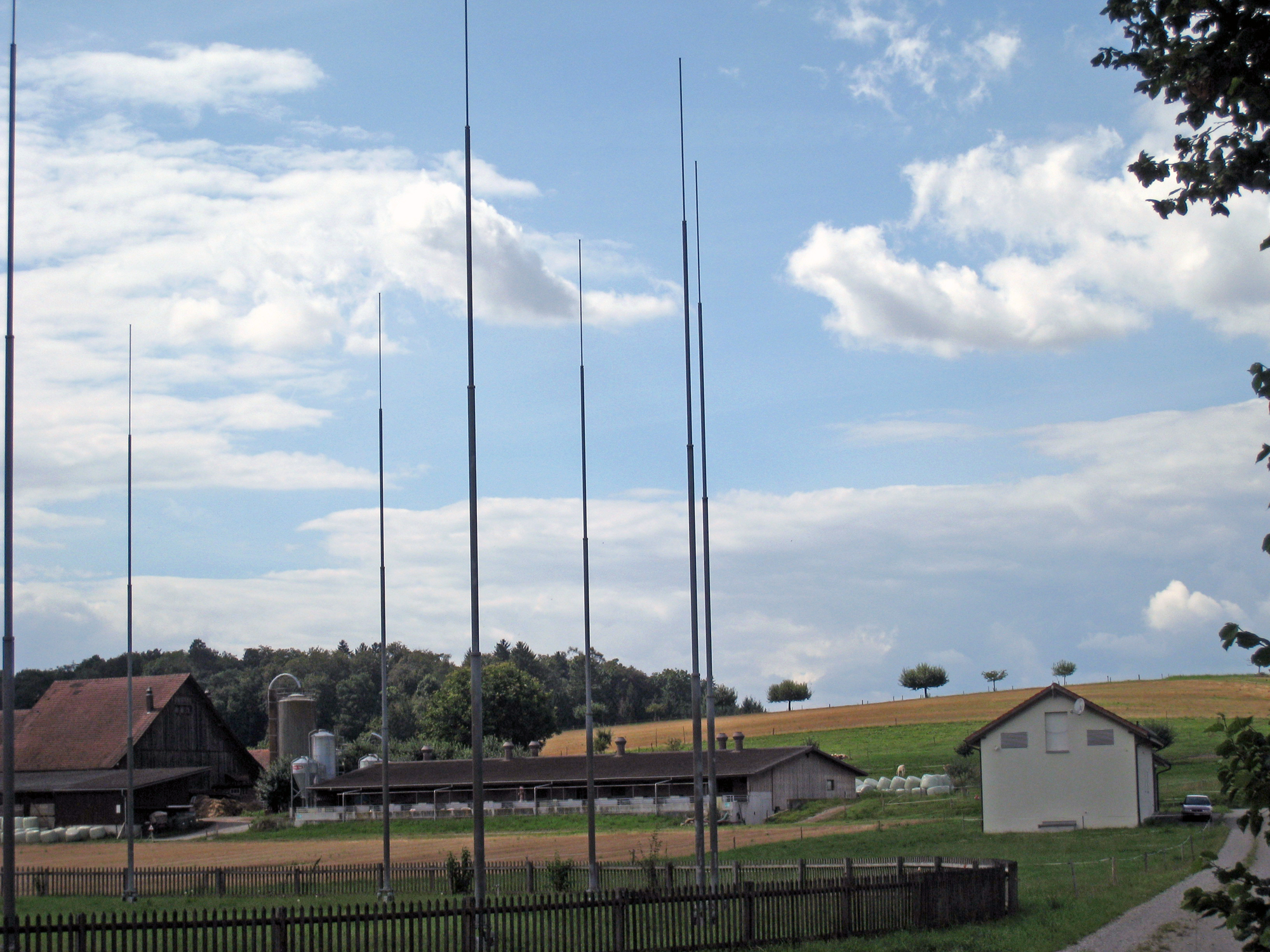 Adcock-U antenna from Plath, Germany